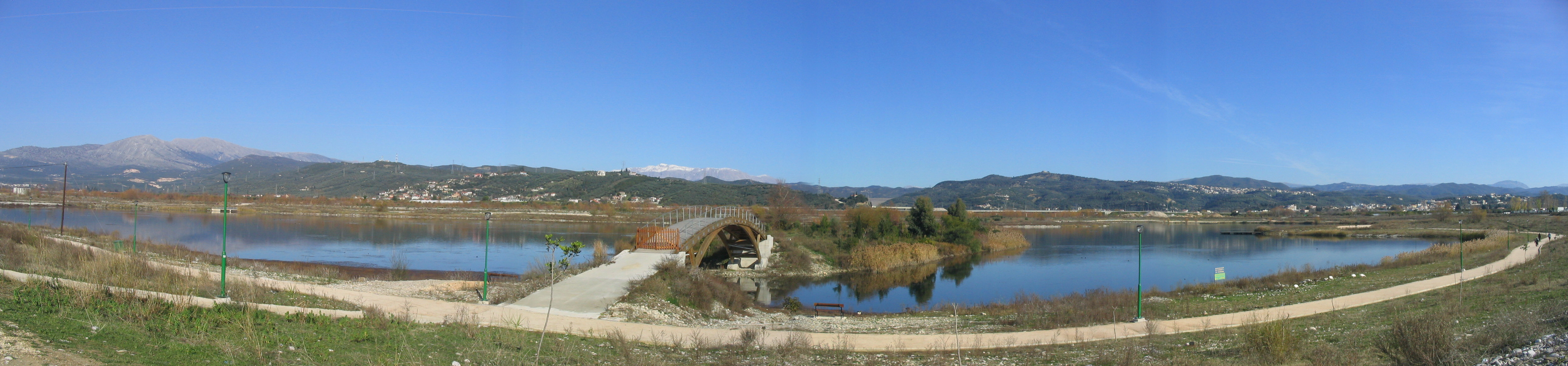 Panoramic view of Arta lake